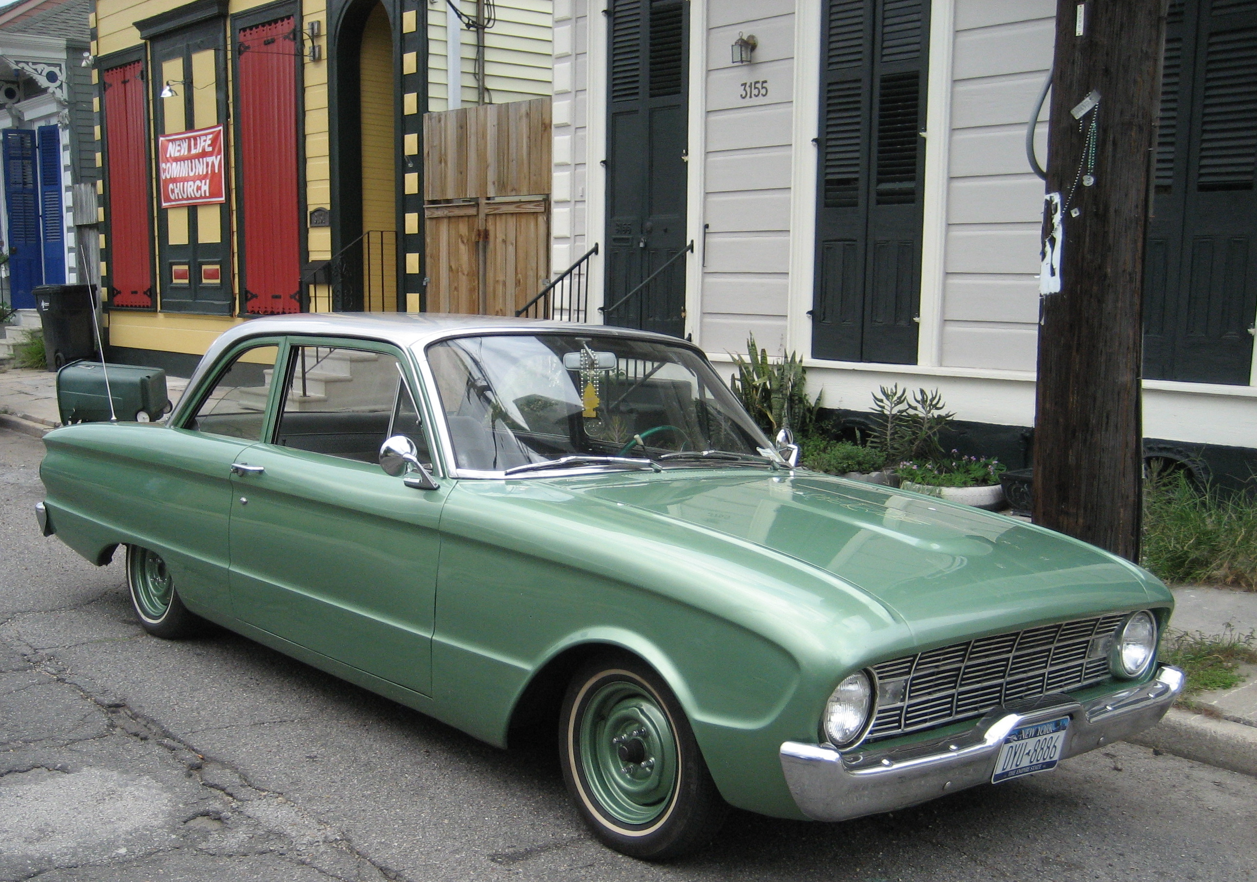 1960 Ford Falcon on street in Bywater neighborhood of New Orleans